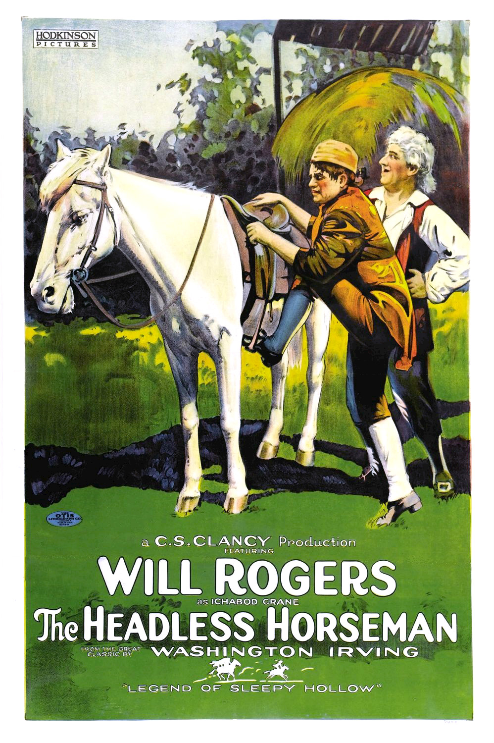 Poster from the 1922 film The Headless Horseman.